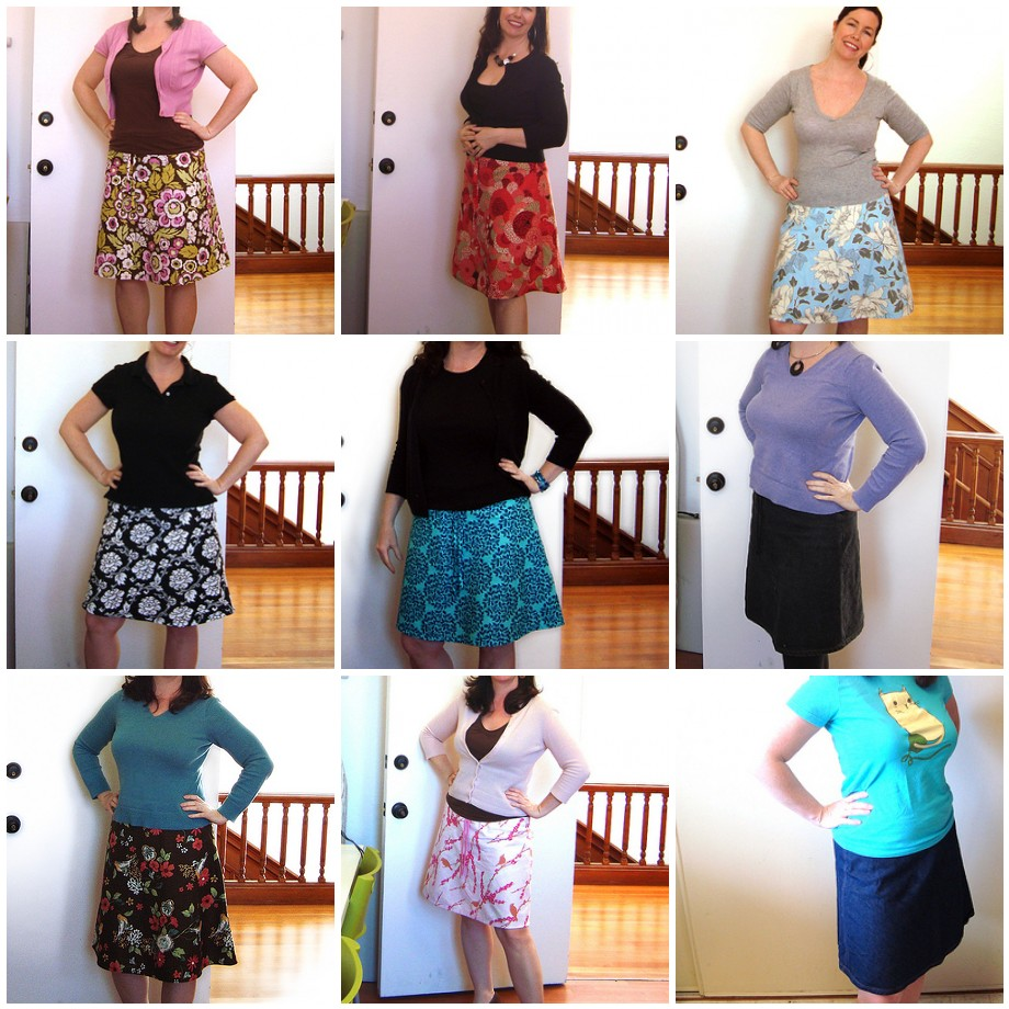 Original caption: "A-Line Skirt Class"